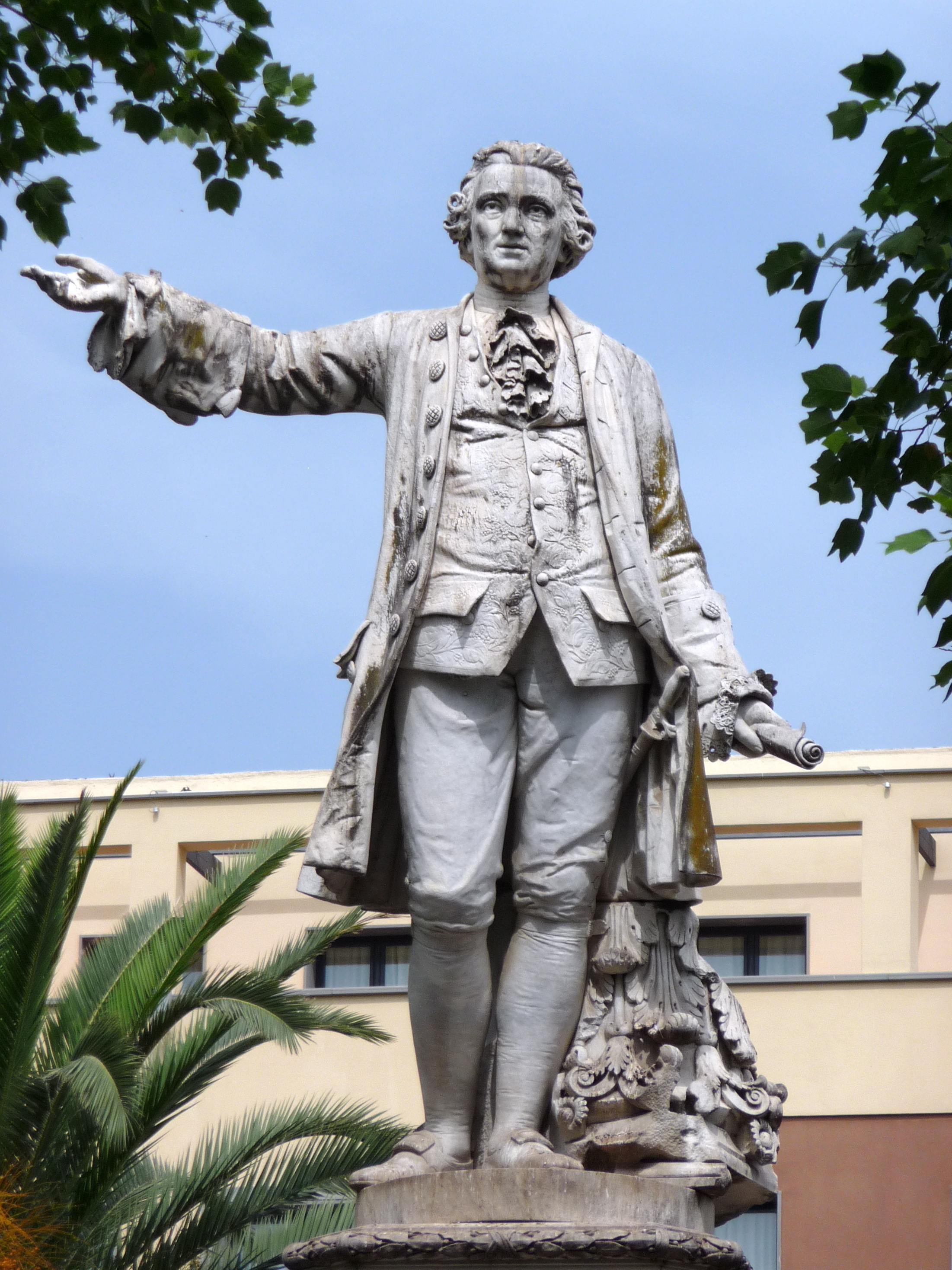 Monument to Luigi Vanvitelli, piazza Vanvitelli in Caserta.